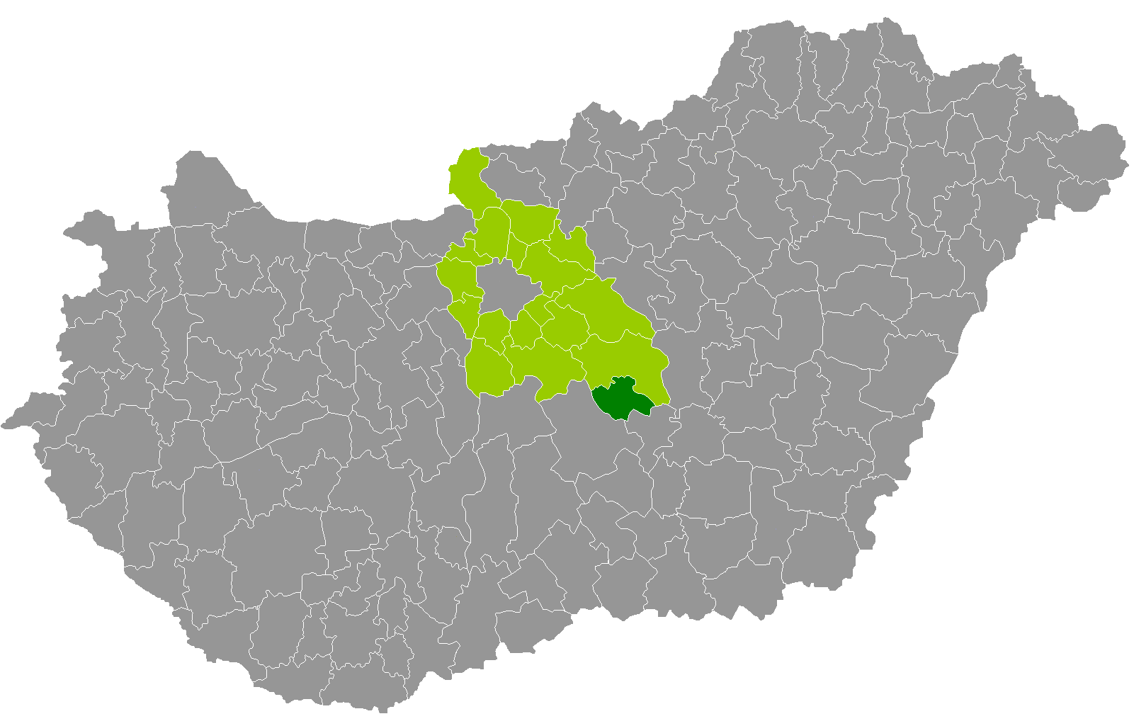 Location of Nagykőrös District, Pest, Hungary